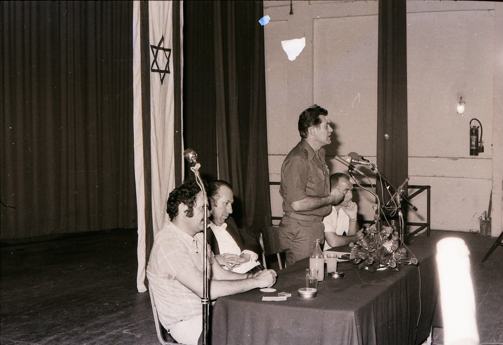 Israel Defense Forces